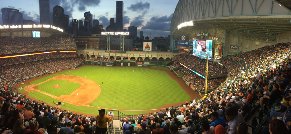 A view of Minute Maid Park from the first base line on Opening Day of 2015 against the Cleveland Indians